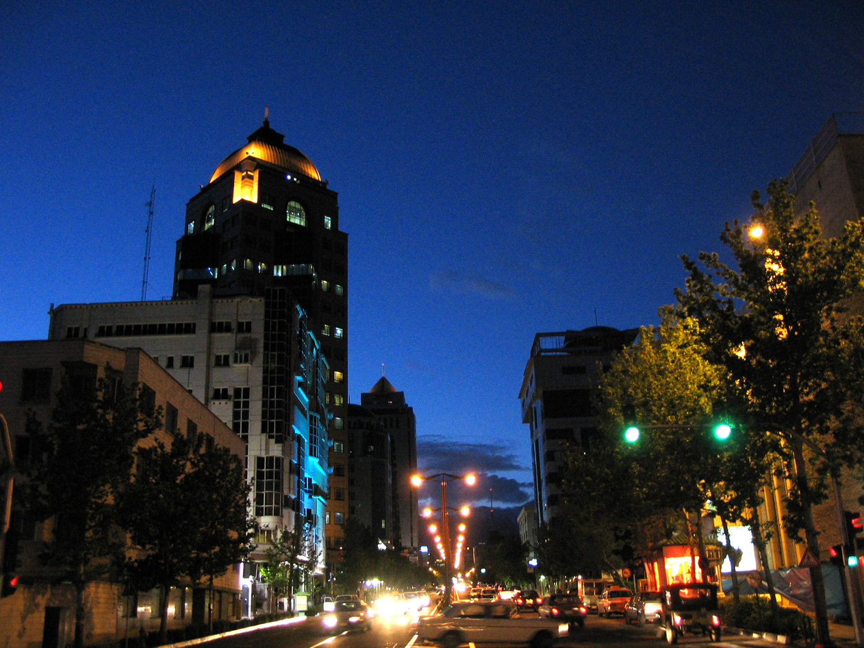 Boukhares Ave. , Tehran